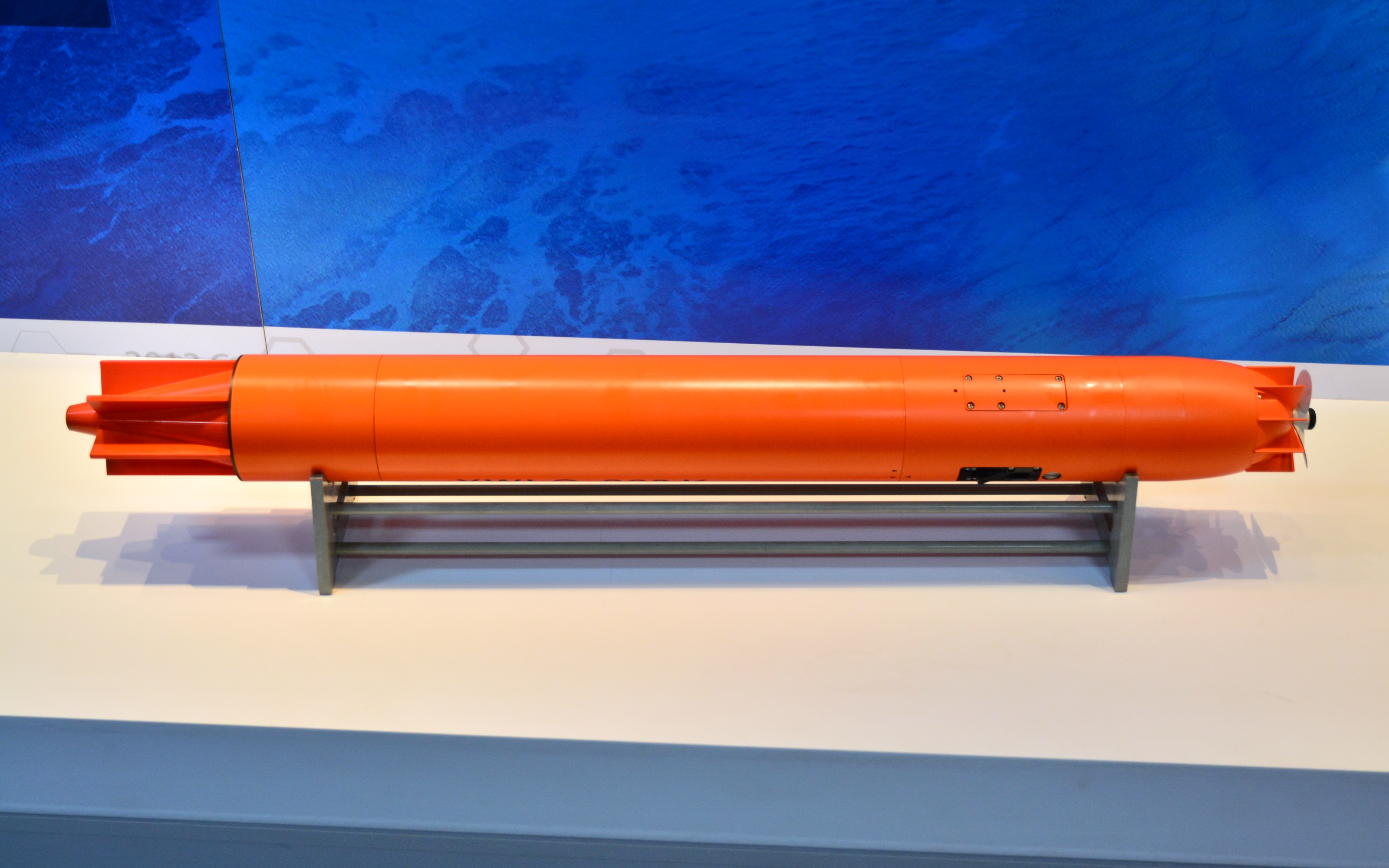 A WLQ-260K torpedo decoy aboard the RoK Navy Fast Combat Support Ship Hwacheon (AOE-59)